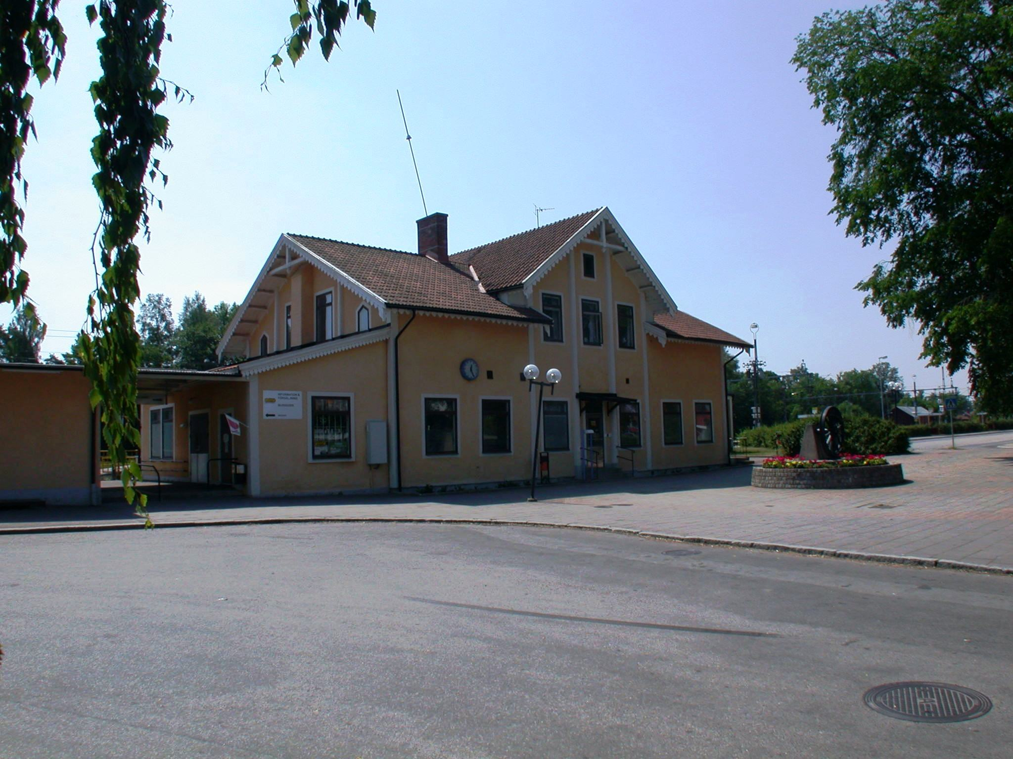 Nybro railway station, Nybro, Sweden. Photo by Riggwelter, May 7, 2006.